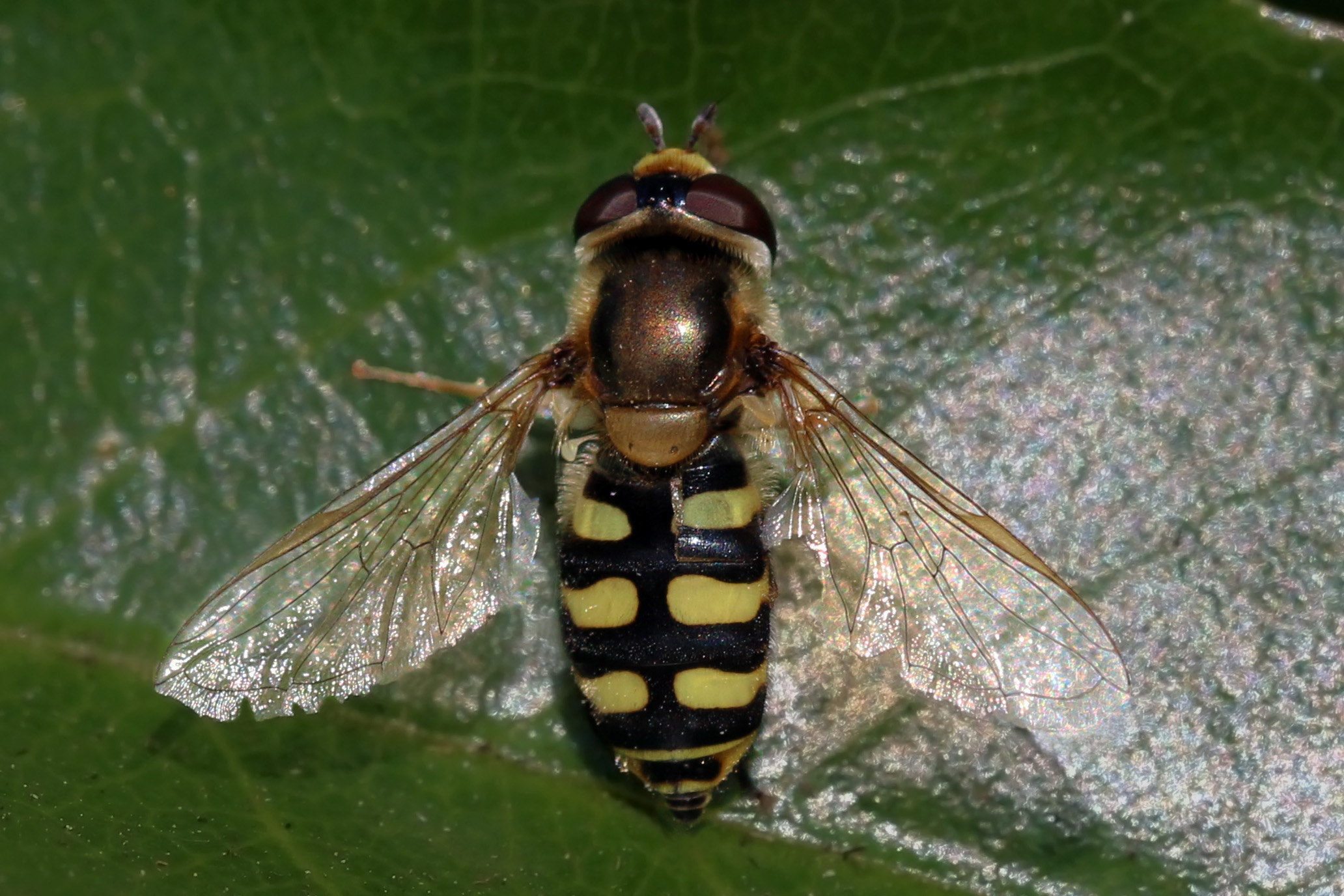 Hoverfly (Eupeodes corollae) female